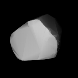 3D convex shape model of 5196 Bustelli, computed using light curve inversion techniques. J. Hanuš, J. Ďurech, M. Brož, B. D. Warner (June 2011). "A study of asteroid pole-latitude distribution based on an extended set of shape models derived by the lightcurve inversion method". Astronomy and Astrophysics 530: A134. ISSN 0004-6361. arXiv